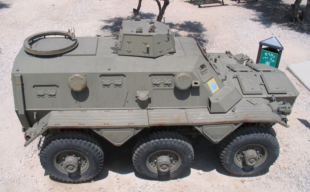 FV 603 Saracen APC in Yad la-Shiryon Museum, Israel.